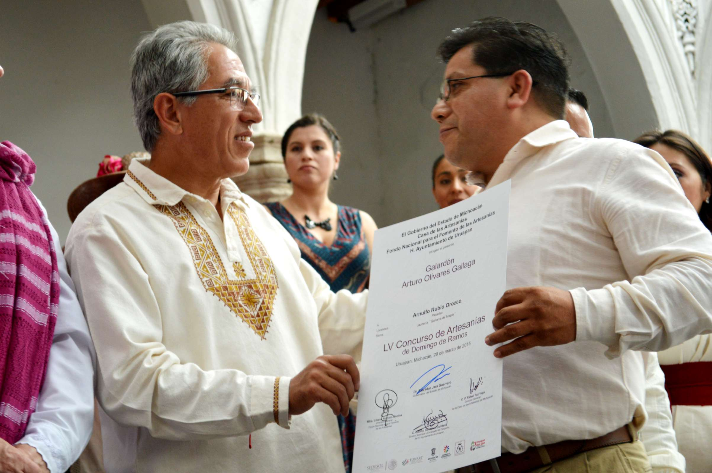 Arnulfo Rubio Orozco winning an award at the 55th annual state handcraft competition of the Tianguis de Domingo de Ramos in Uruapan, Michoacan, Mexico